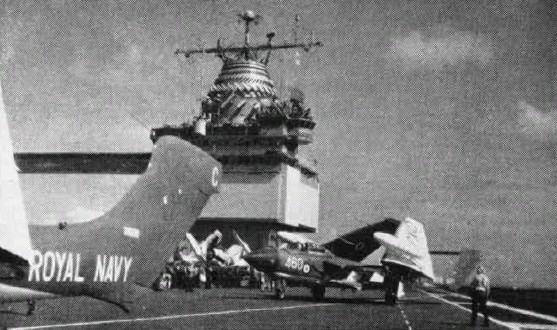 Royal Navy de Havilland Sea Vixen FAW.1 fighters of 893 Naval Air Squadron from the aircraft carrier HMS Centaur (R06) during cross-deck operations aboard the U.S. aircraft carrier USS Enterprise (CVAN-65) in 1962.